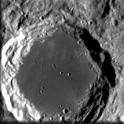 Lomonosov lunar crater - SMART-1 image